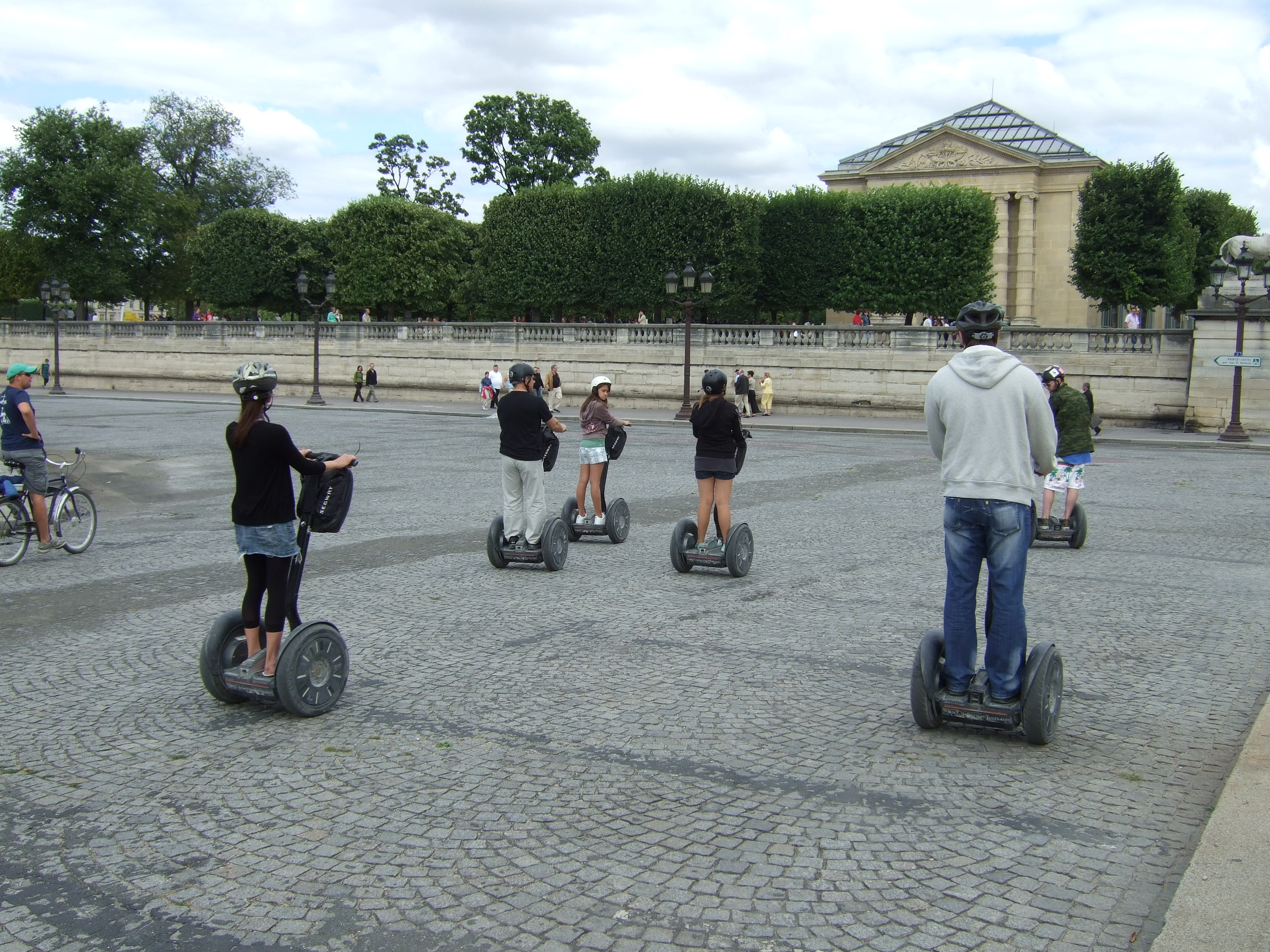 Segway in Paris.